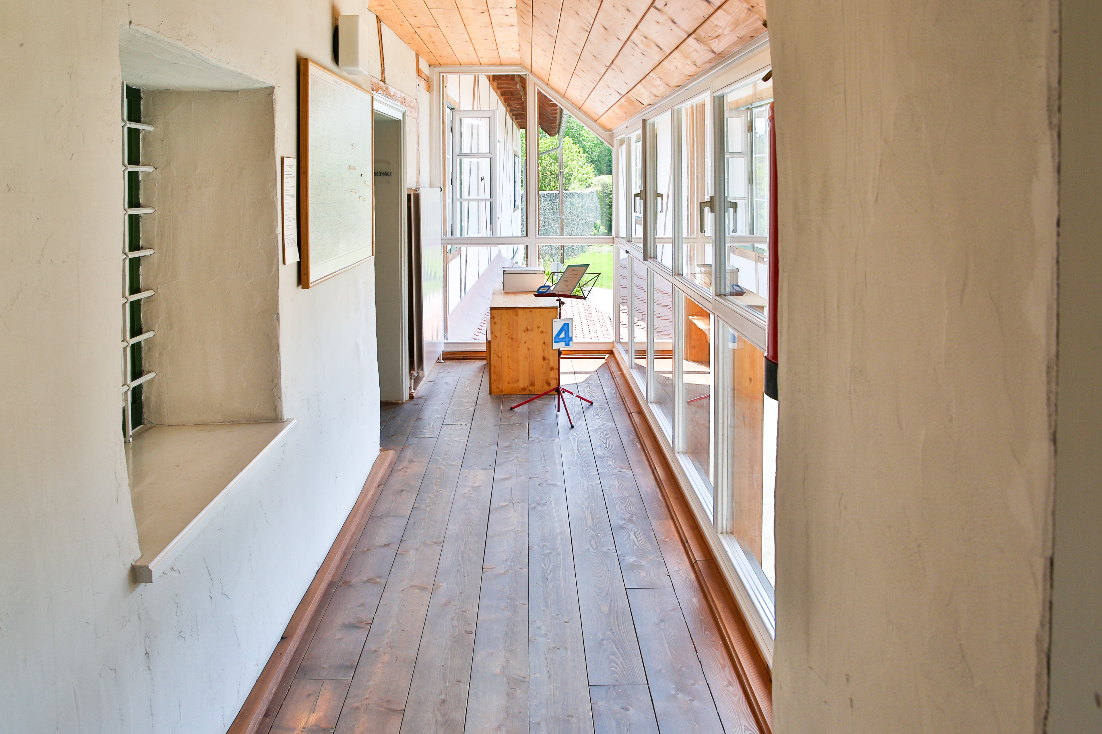 Austrian Brass Music Museum in Oberwölz / Styria / Austria / EU. Connecting corridor.